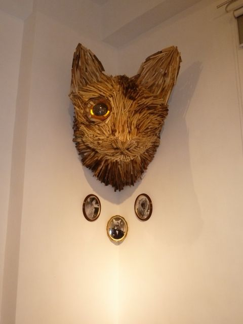 Kacey Wong sculpture of his cat, Ball Ball